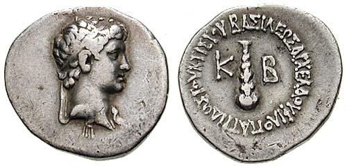 Drachm of Archaelaus of Cappadocia, Caesarea mint